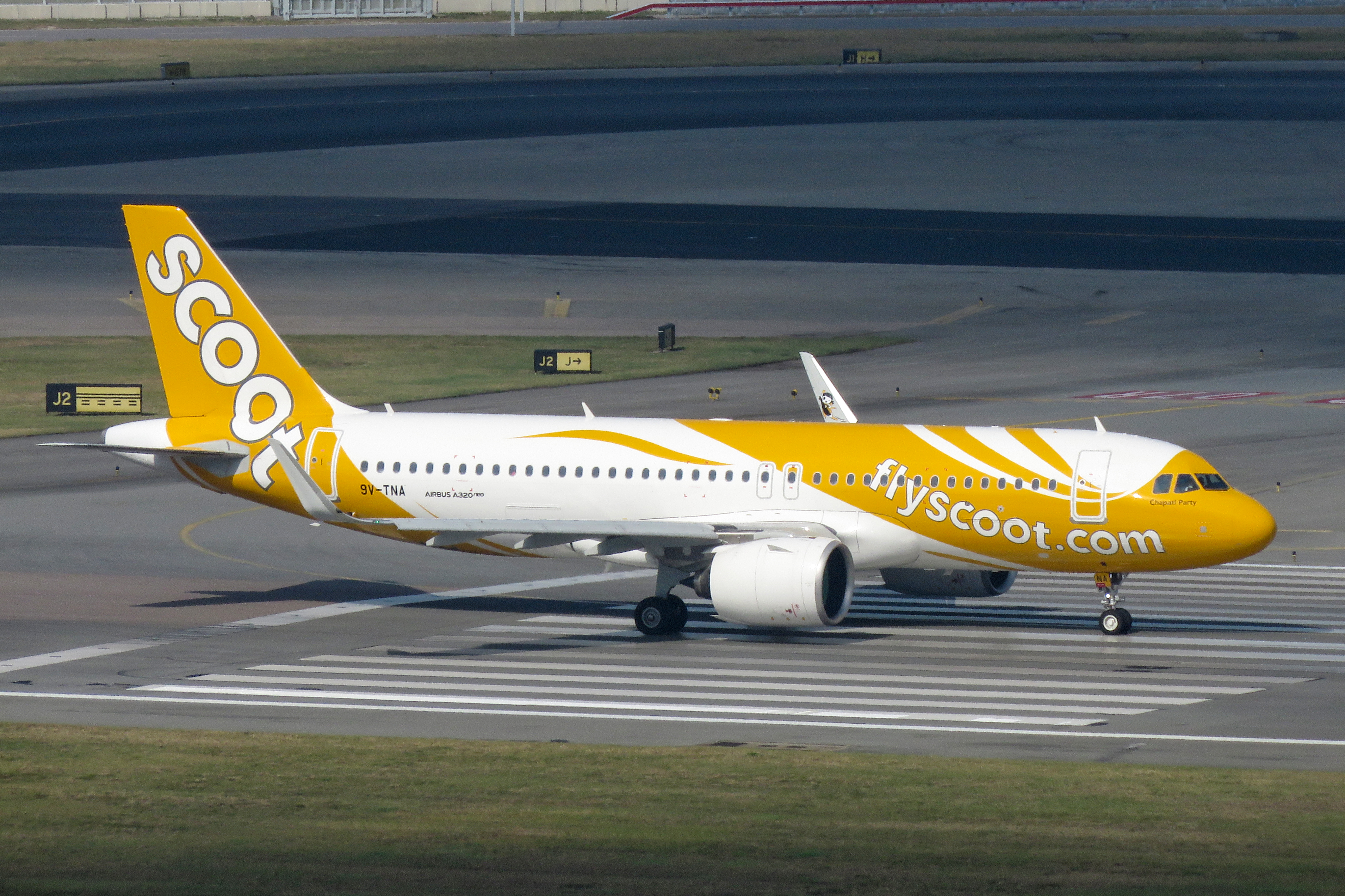 "Chapati Party" cleared for takeoff on runway 07R as Scooter 979 to Singapore.